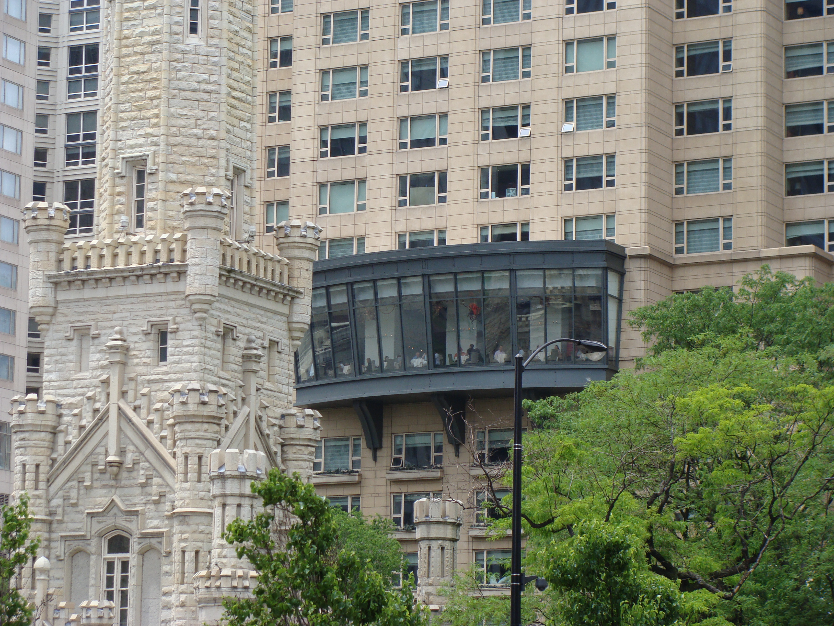 View of the restaurant at Park Tower in Chicago, looking out on the Chicago Water Tower.